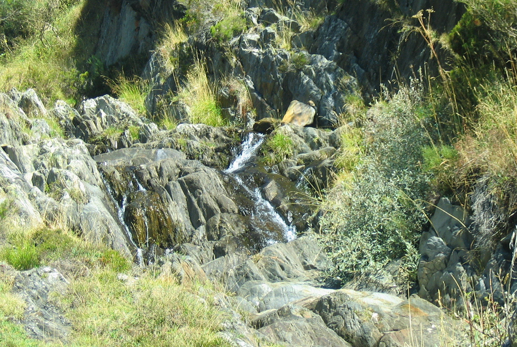 Source of the Omaña river in León, Spain